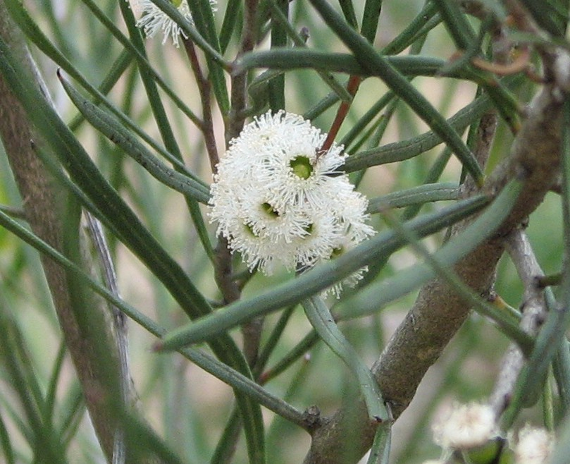 Eucalyptus angustissima, Maranoa Gardens, Balwyn, Victoria, Australia.